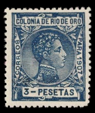 Stamp of Rio de Oro 3ptas, Alphonso XIII, issued 1907